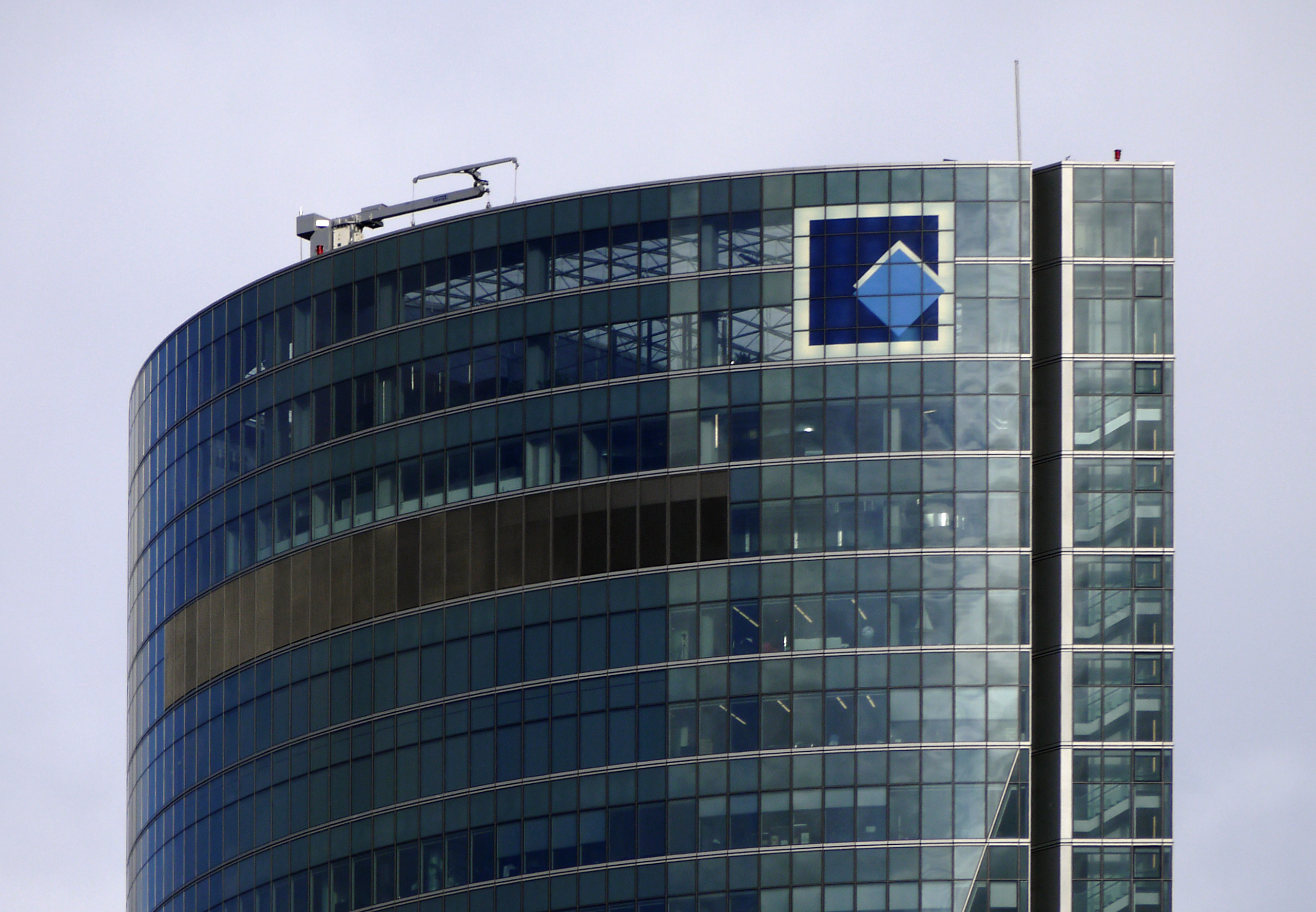 Madrid Cuatro Business Area, Torre Espacio. Madrid, Spain